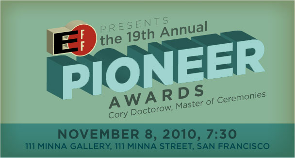 The postcard invitation for the EFF 2010 Pioneer awards.